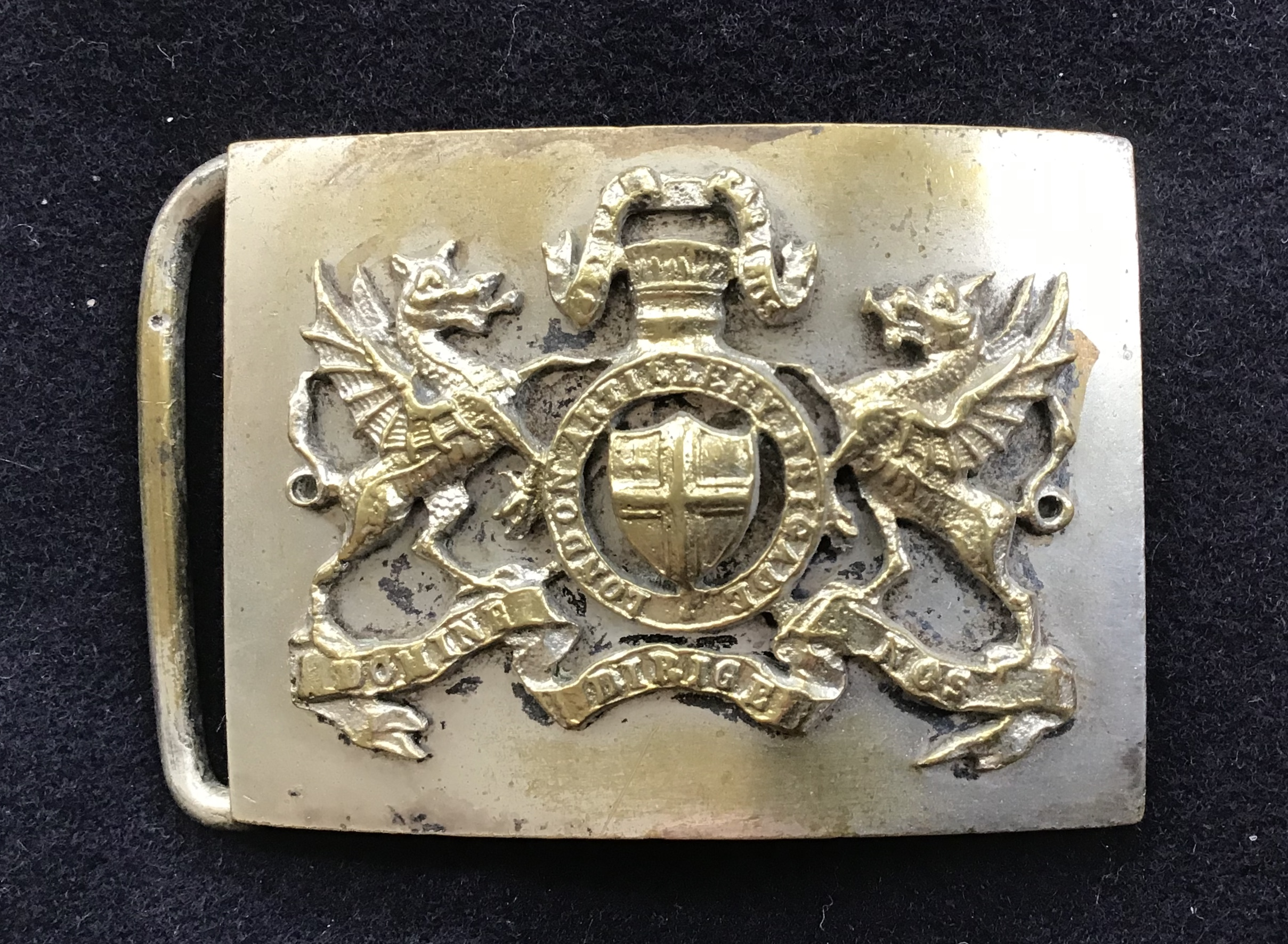 Officers waistbelt clasp, City of London Artillery Volunteers, c1890